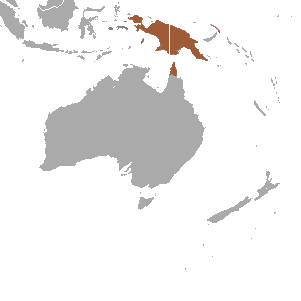 Common Spotted Cuscus (Spilocuscus maculatus) range (brown — native, red — introduced, dark gray — origin uncertain)